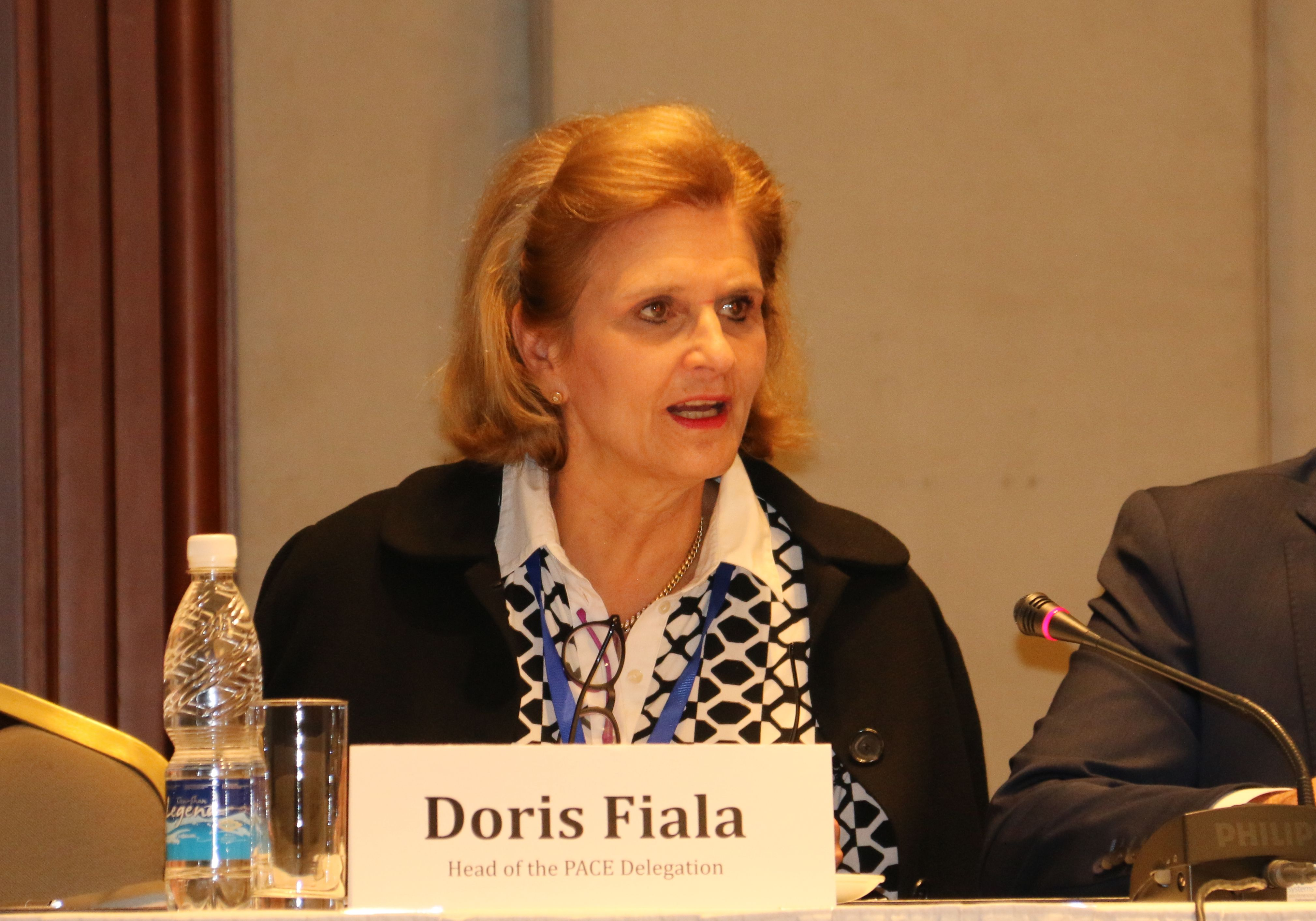 Doris Fiala, Head of the PACE Delegation, delivers remarks in Bishkek, 13 Oct. 2017